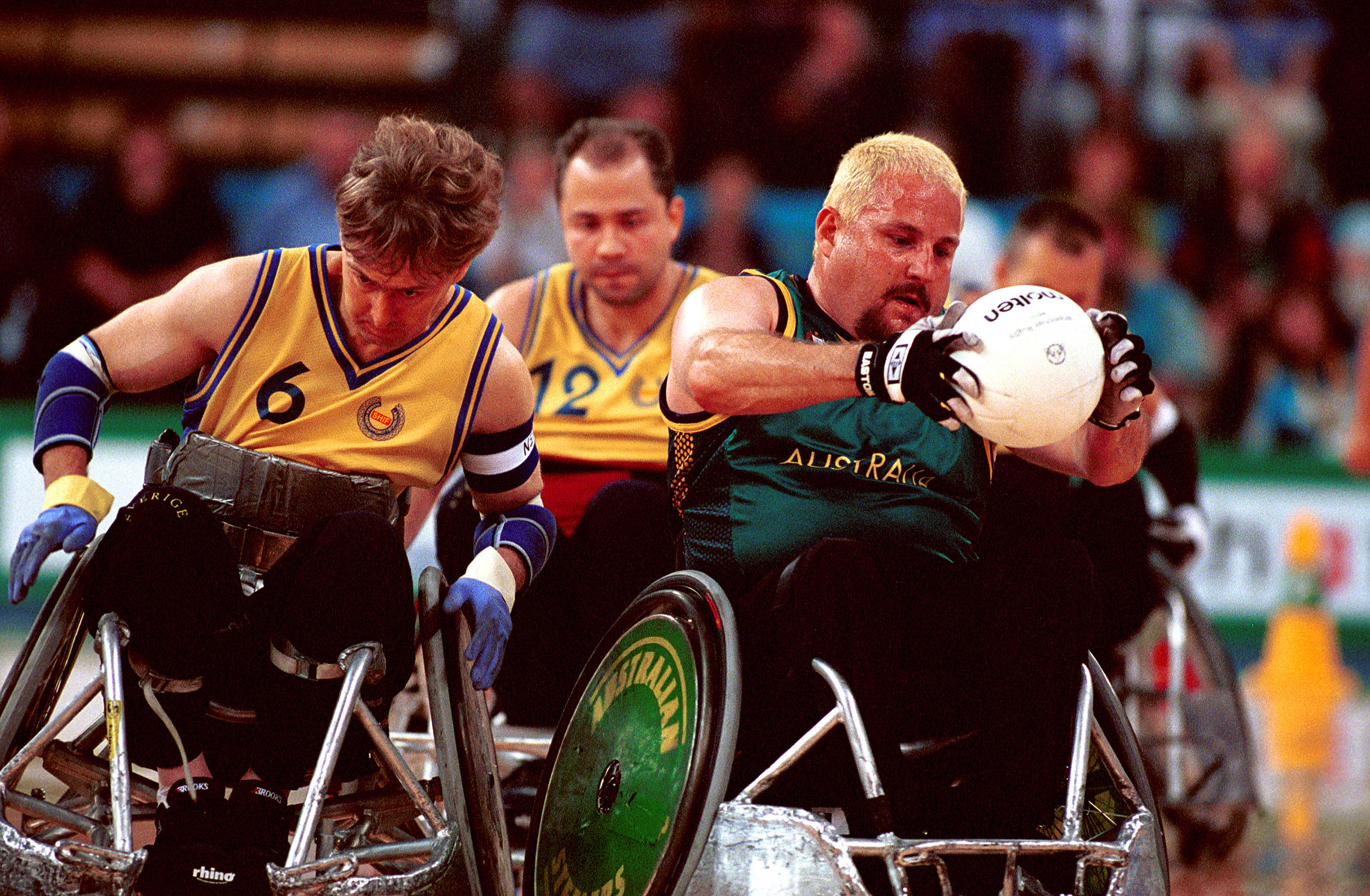 Action shot of Australian wheelchair rugby "Steelers" player George Hucks with the ball in a match against Sweden during the 2000 Sydney Paralympic Games